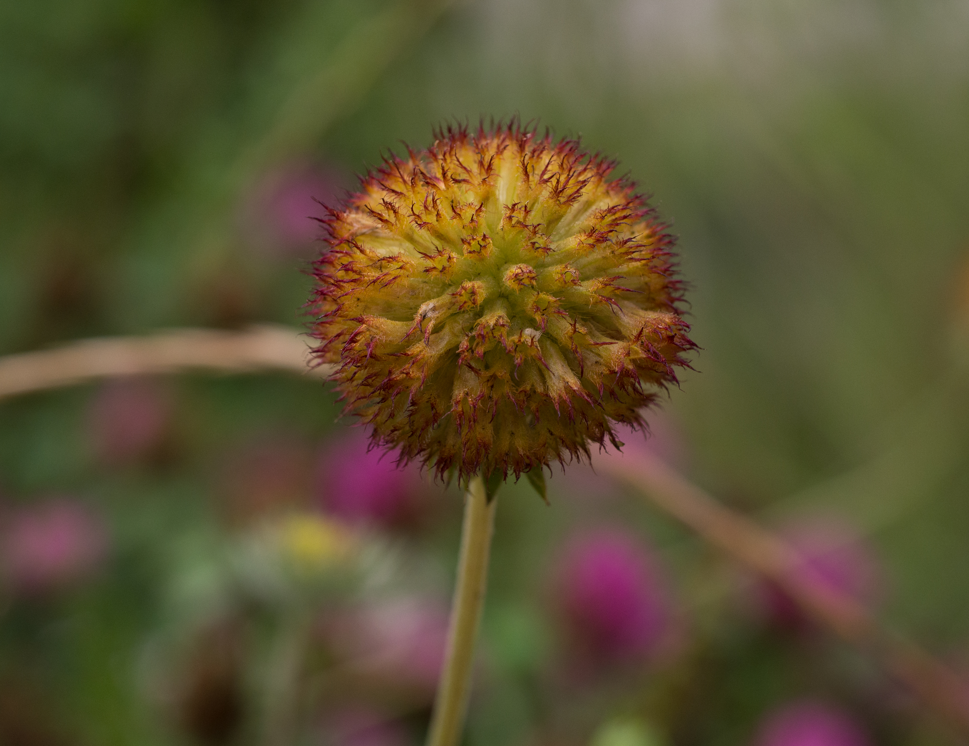 Firewheel (Indian blanketflower, sundance, Gaillardia pulchella) seedhead in Aspen, CO.